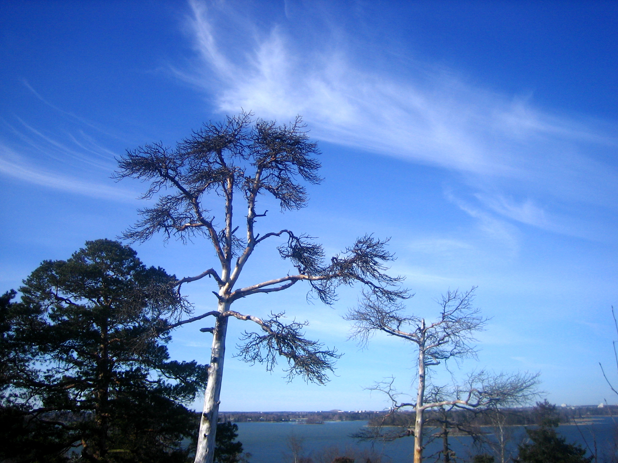 Trees in Lauttasaari, Helsinki